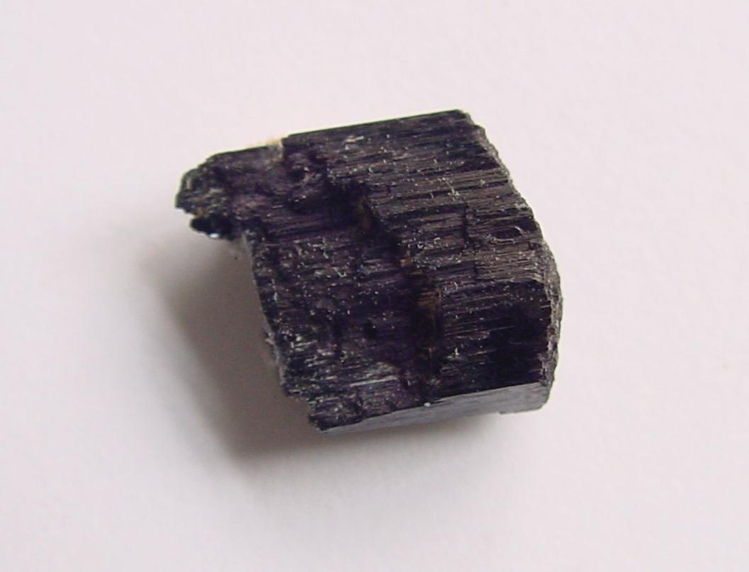 Arfvedsonite from New Hampshire, USA. Specimen size 1.1 cm